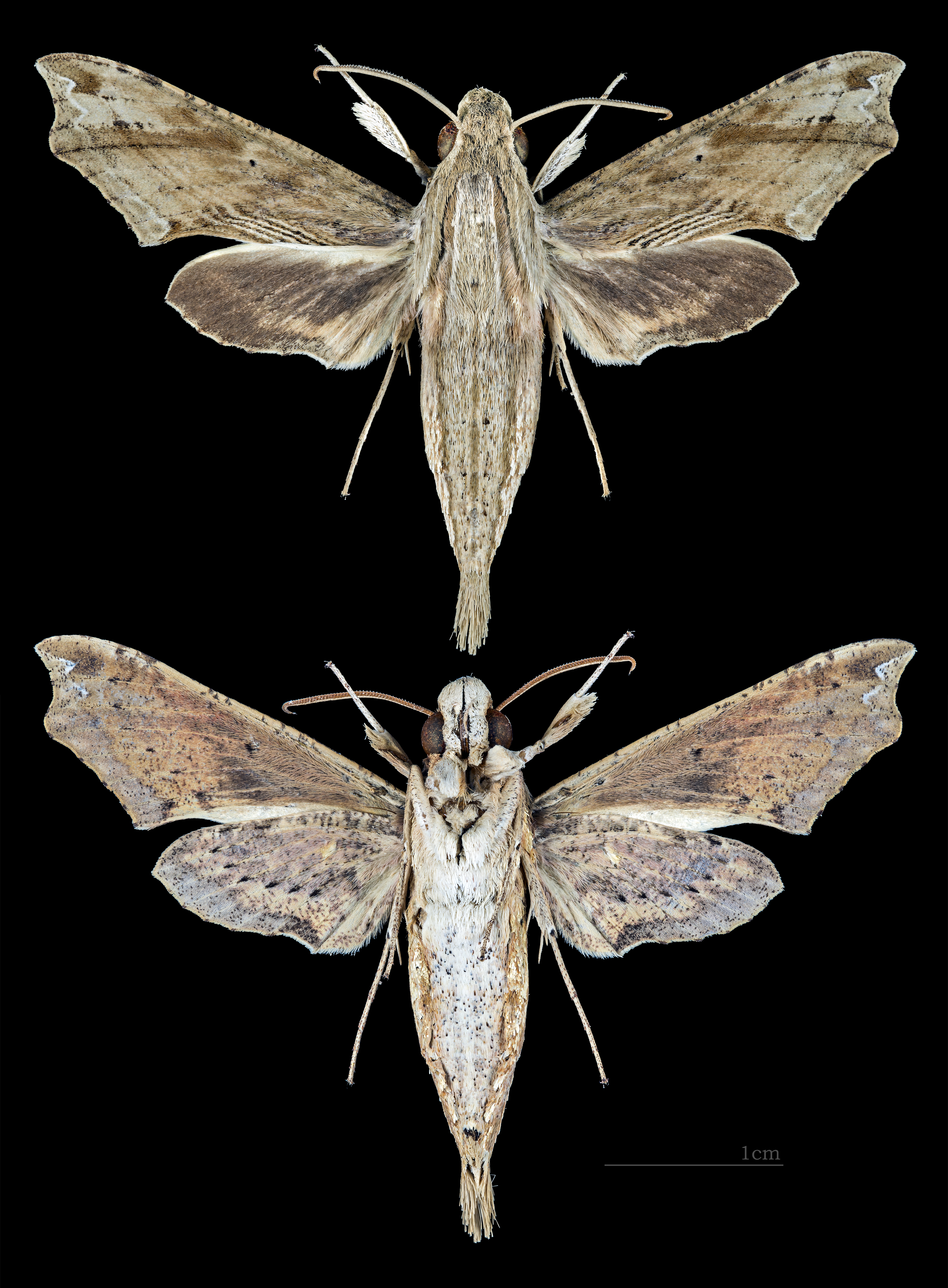 Eupanacra malayana - Two views of same specimen Collection of the Mathematician Laurent Schwartz